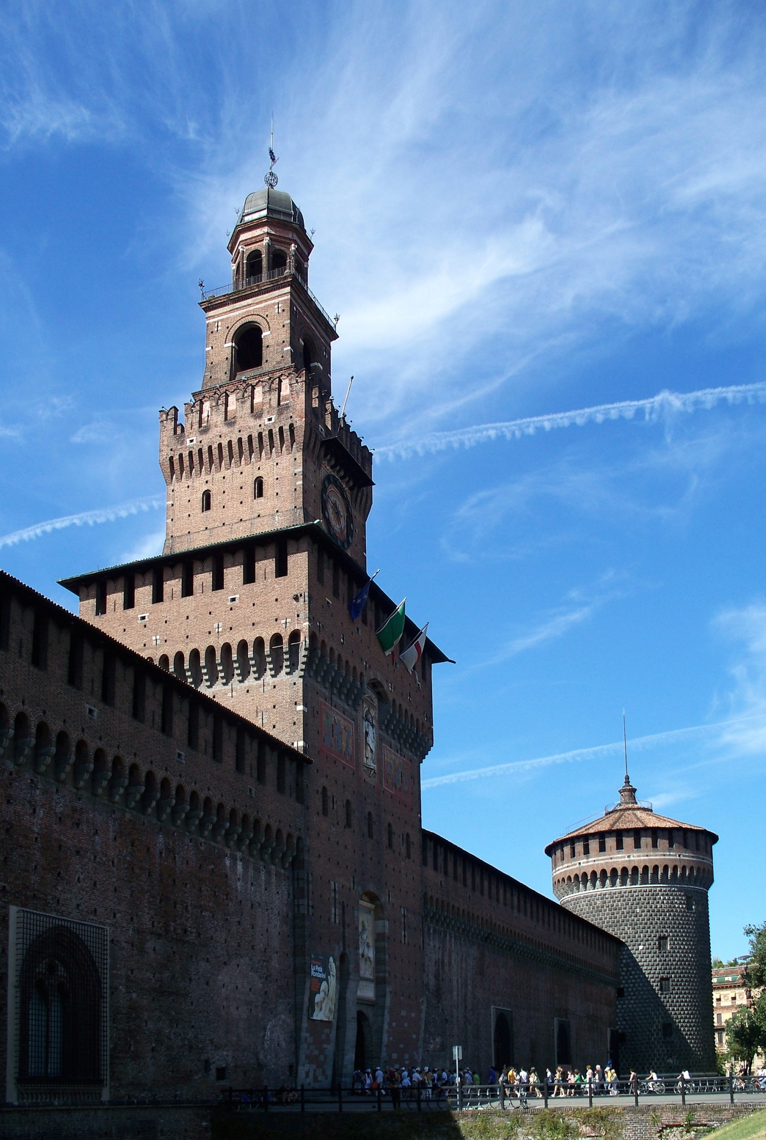 The facade of Castello Sforzesco with the Filarete Tower in Milan.